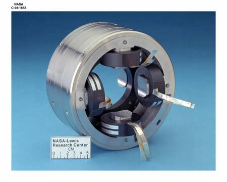 Magnetic bearing